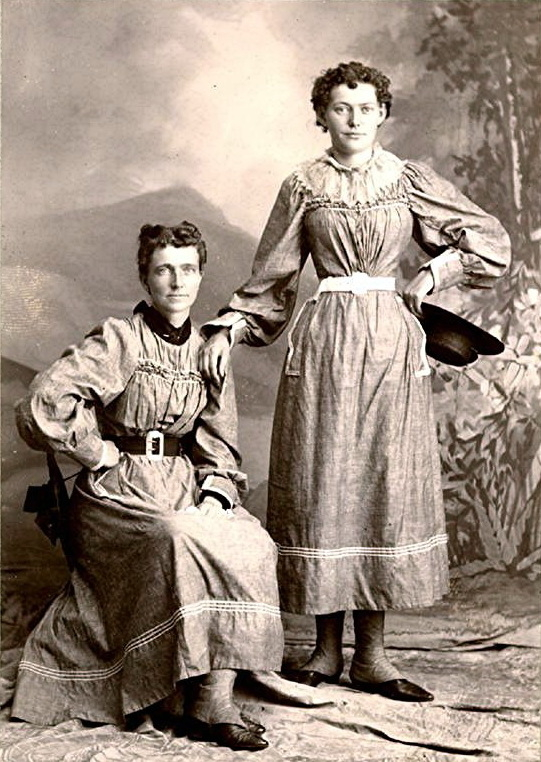 Helga Estby (left) and her daughter Clara, 1897 in Minneapolis.